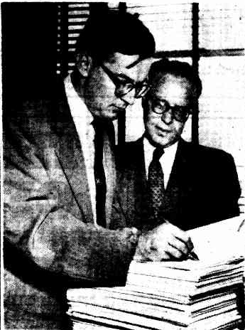 Mr. K. Shann, Acting Permanent Representative of Australia to the United Nations, signs UN decisions on behalf of the Australian Government